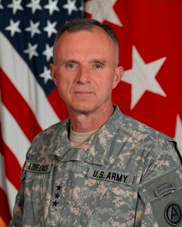 This is a photograph of LTG James J. Lovelace, commander of Third US Army, ARCENT, CFLCC. It is an official US Army Photograph, made strictly for official US Army requirements. It was photographed by a uniformed servicemember in the performance of their duties.